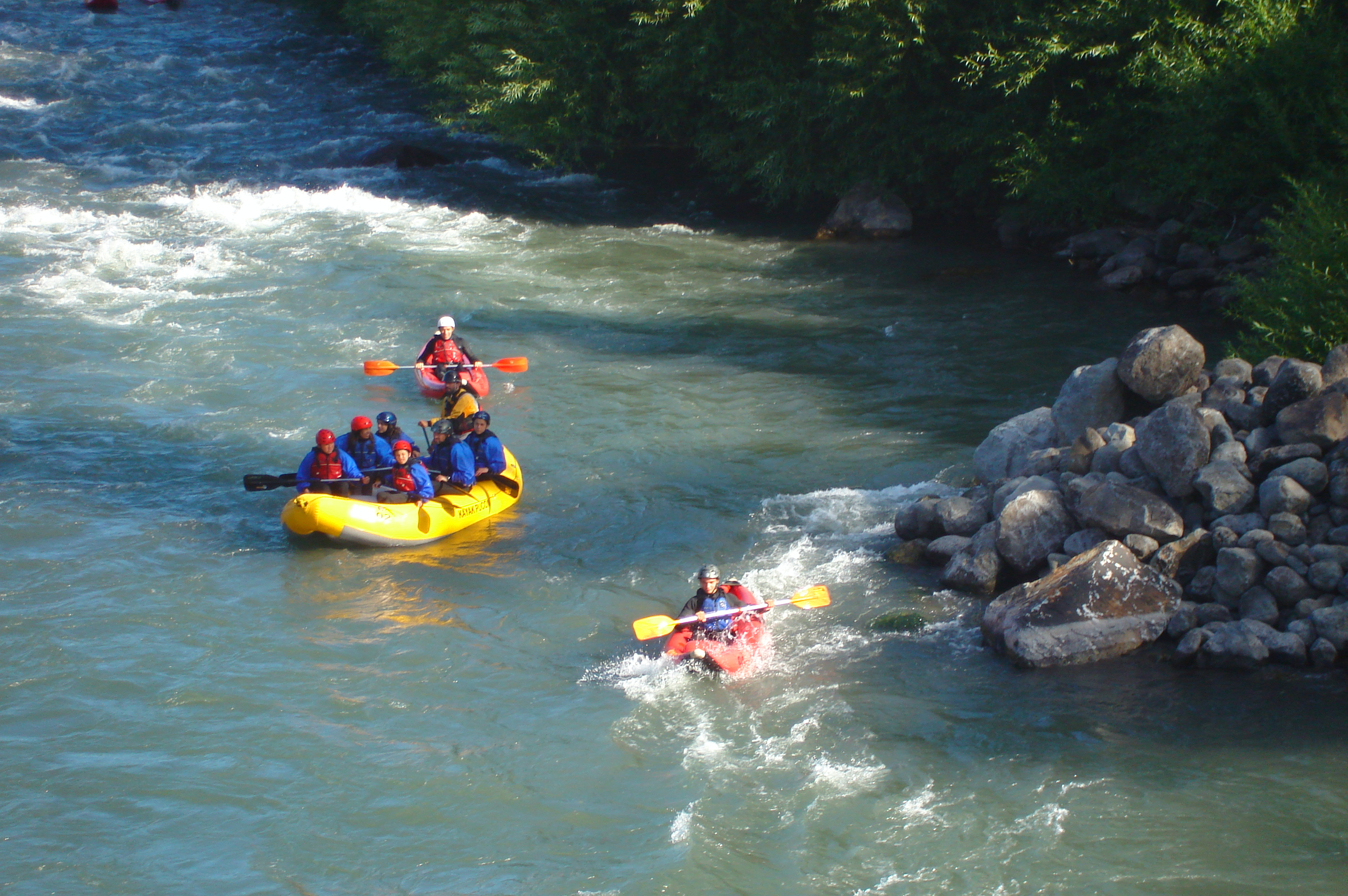 Rafting and kayaking at Trancura river.